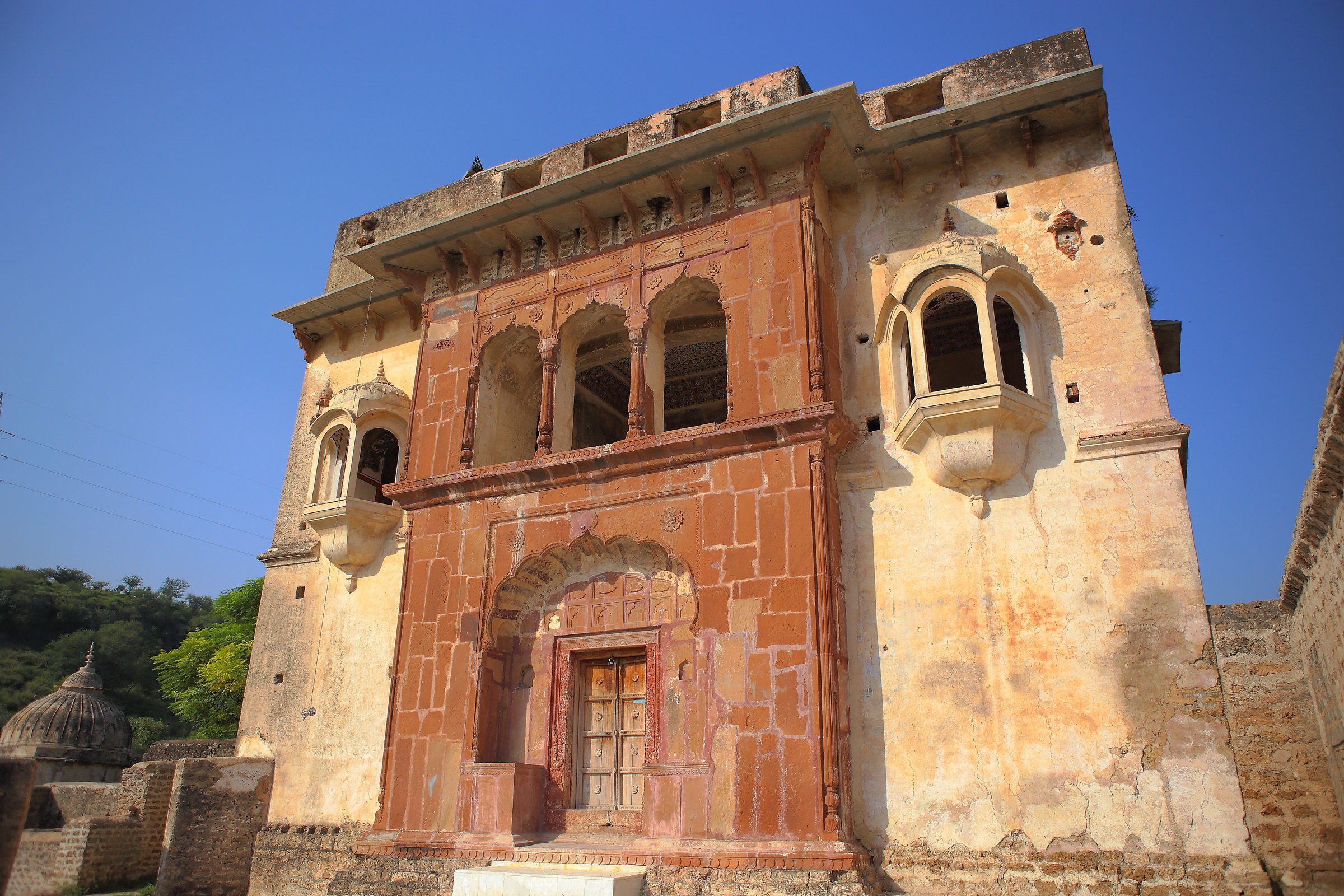 Satghara Temple This is a photo of a monument in Pakistan identified as the PB-38